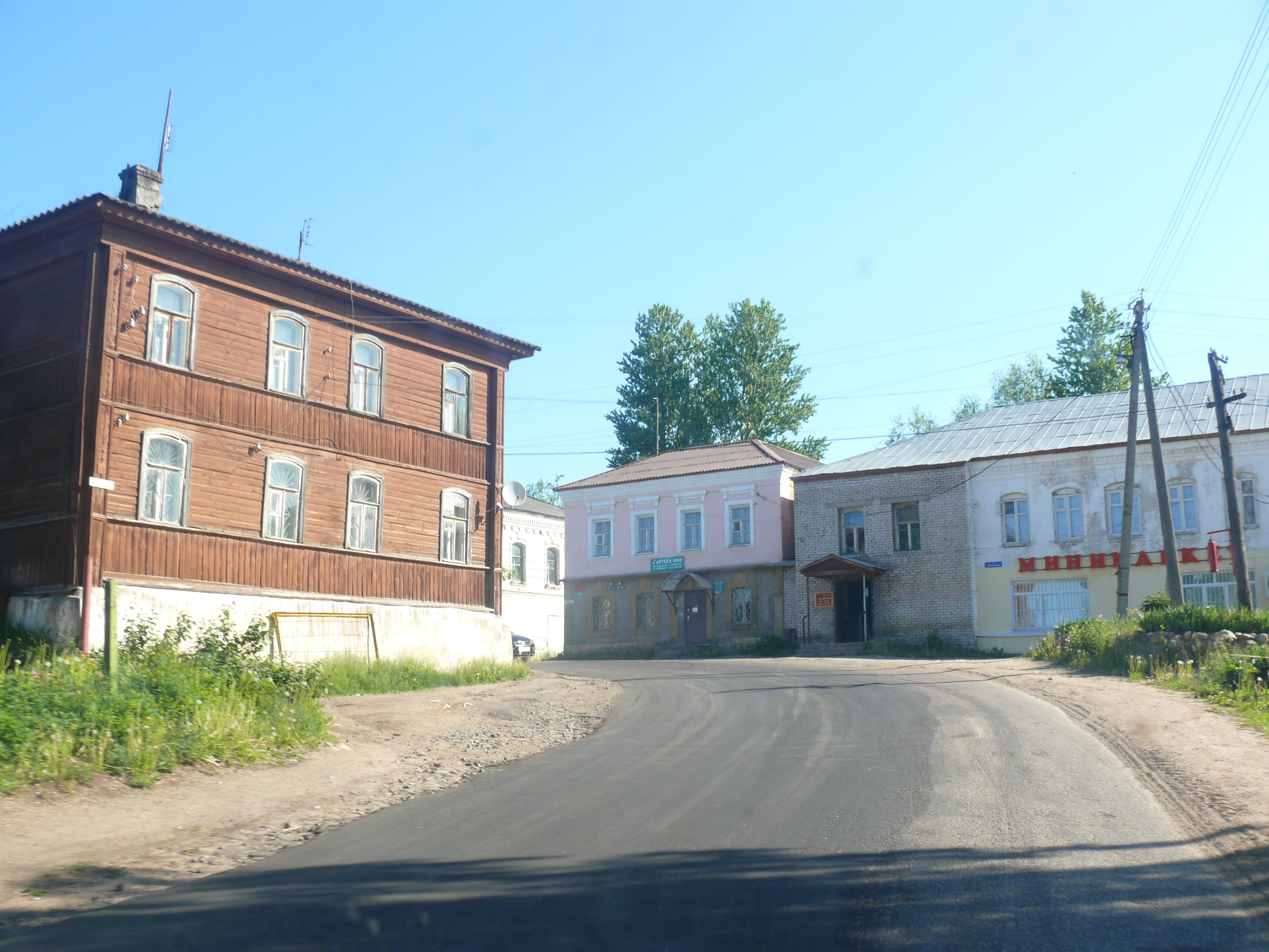 Lykoshino village. Bologovsky district, Tver oblast, Russia